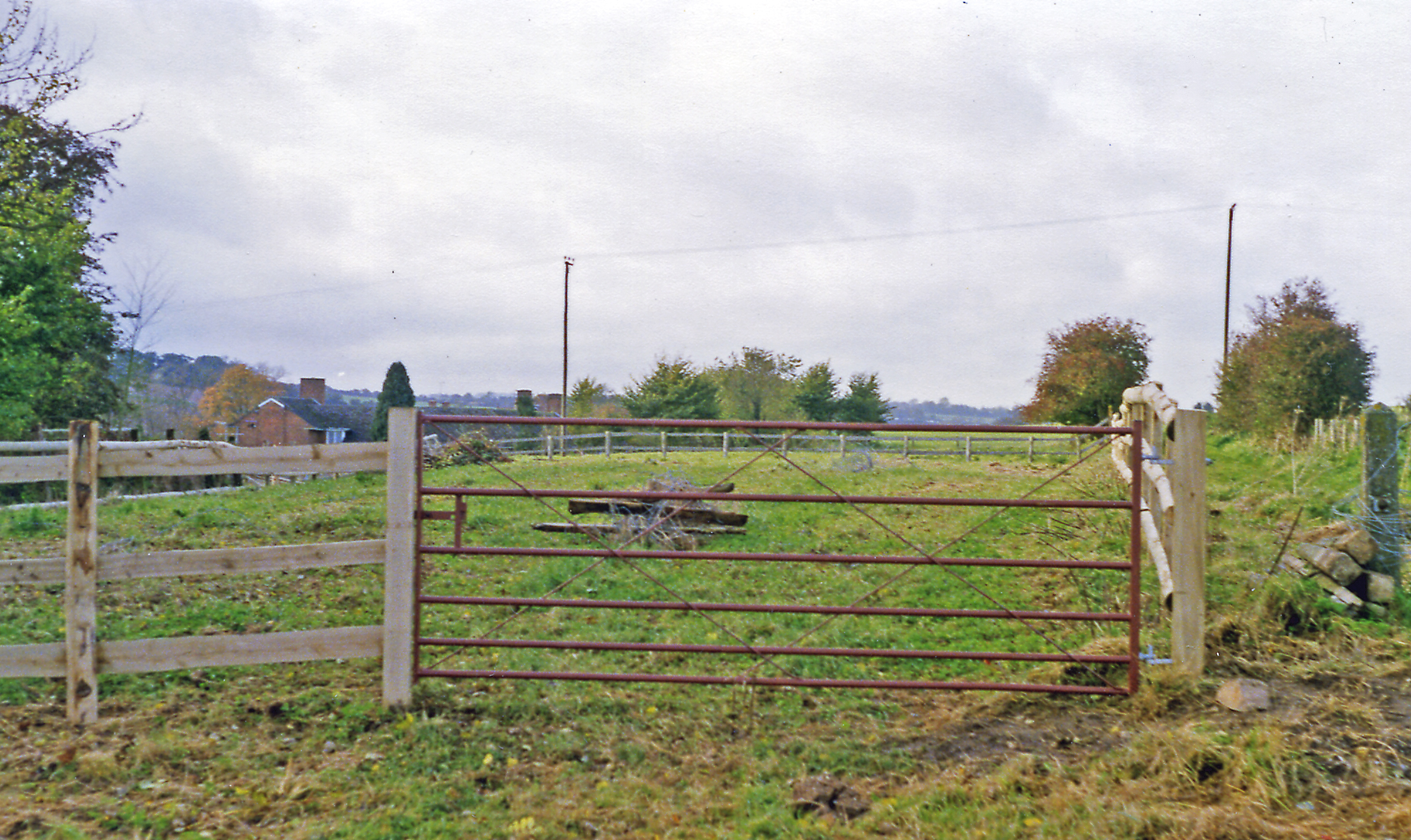 Site of former Eastbury Halt, 1992. View NW, towards Lambourn: ex-GWR Newbury - Lambourn branch, closed 4/1/60. (Is that track visible under the grass, lower left?)